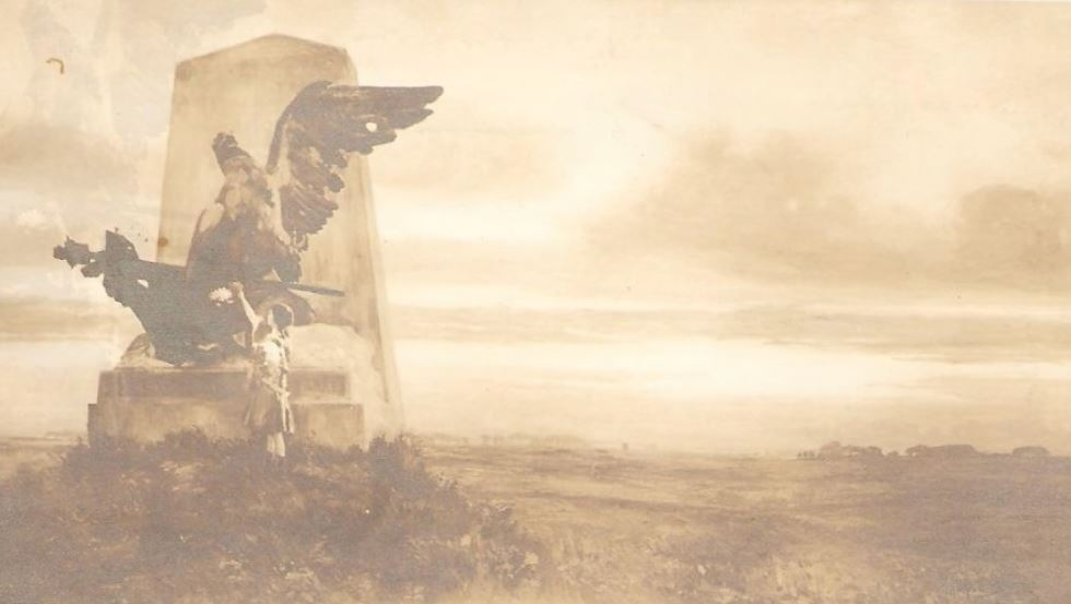 "Waterloo" by Maurice Dubois